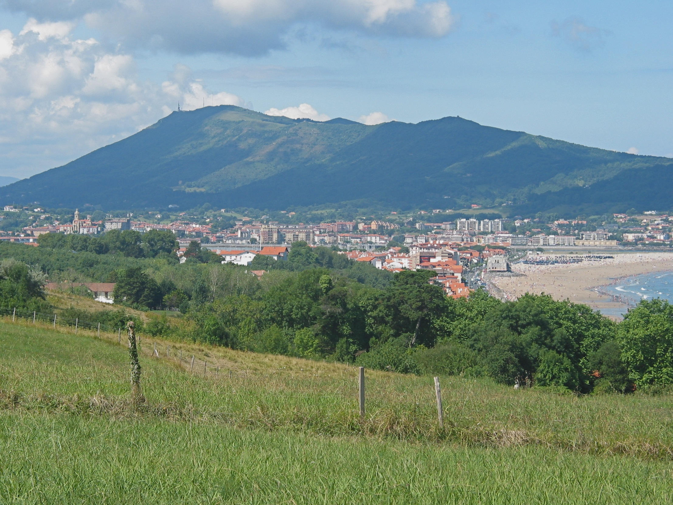 Hendaye, Pyrénées Atlantiques, France